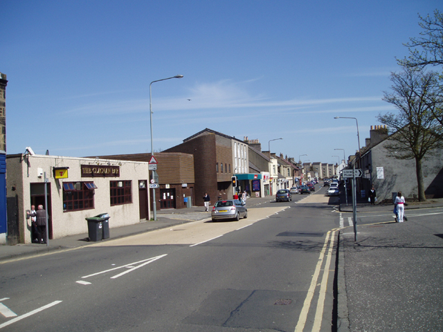 Whitburn, West Lothian. Looking East towards the Town Centre.